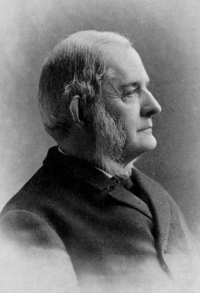 Photograph of Harvard Professor of Chemistry, Josiah Parsons Cooke